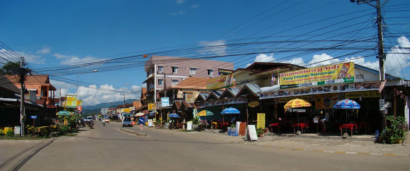 Vang Vieng, Vientiane Province, Laos.